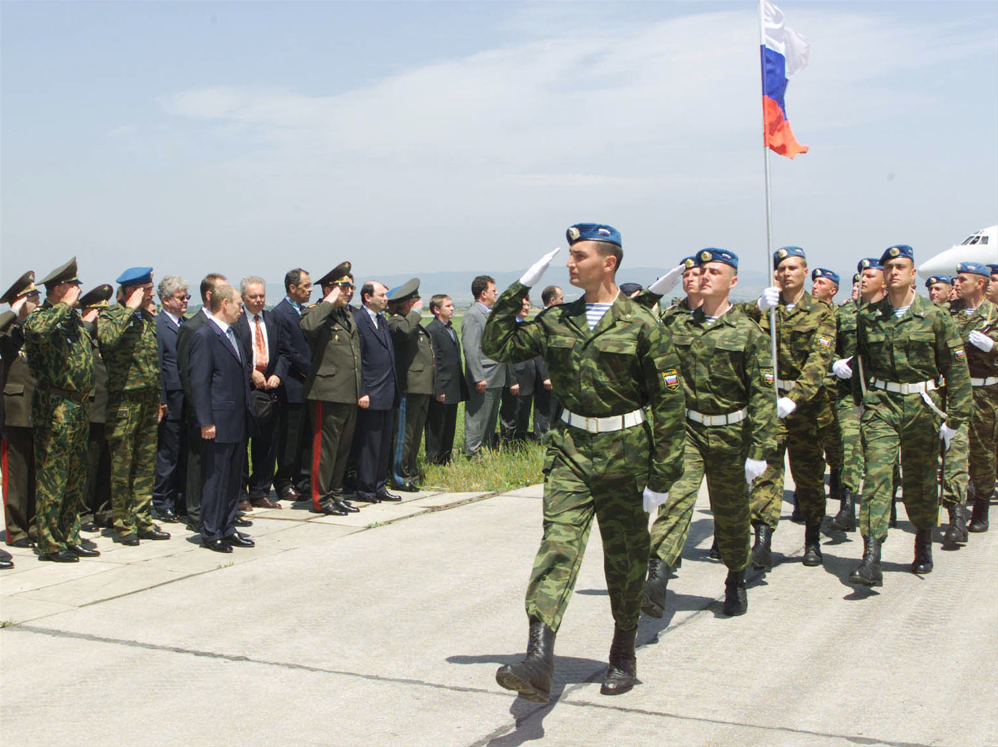 PRISTINA, KOSOVO. Welcoming ceremony at the airport.